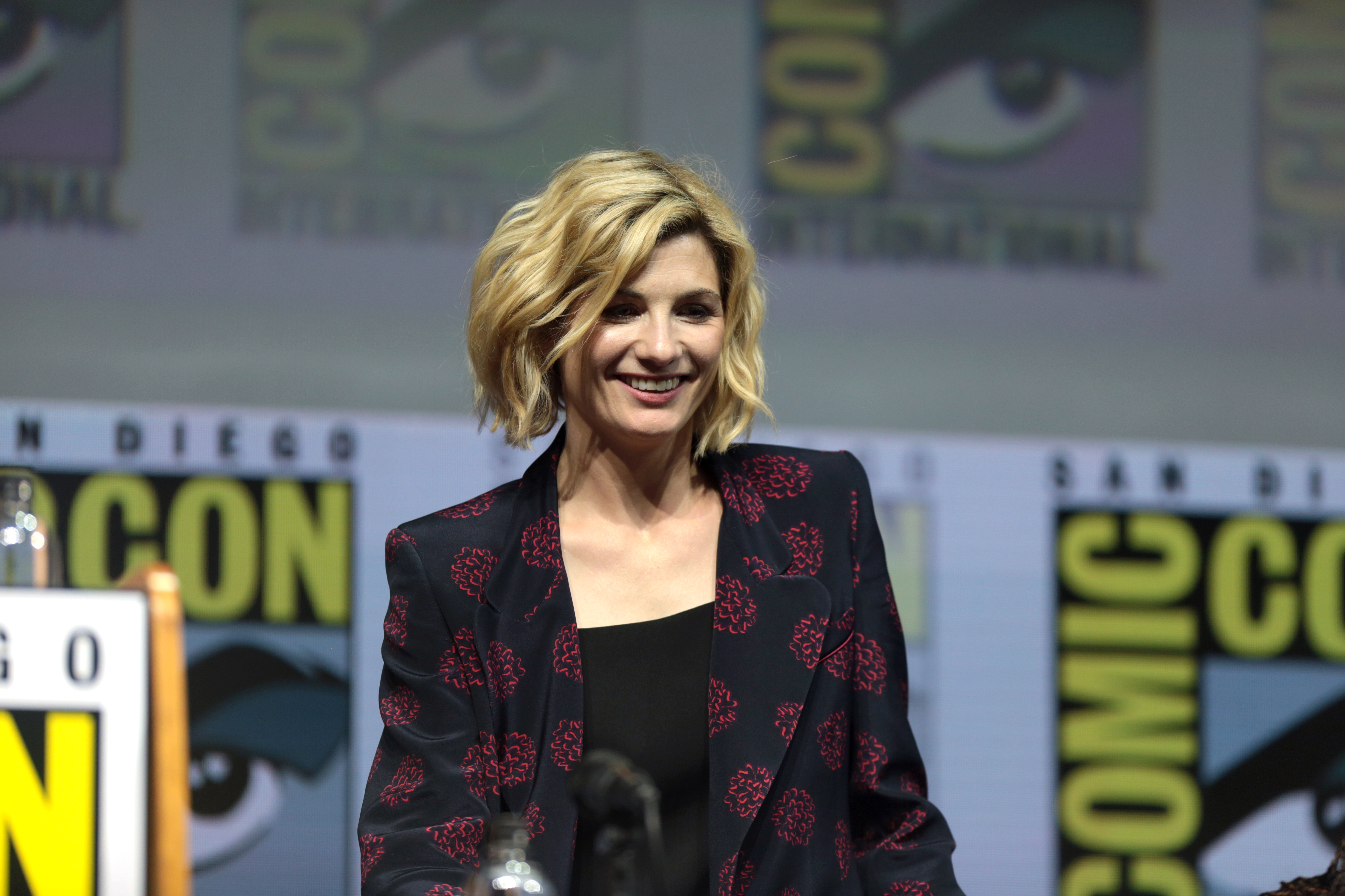 Jodie Whittaker speaking at the 2018 San Diego Comic Con International, for "Entertainment Weekly's Women Who Kick Ass", at the San Diego Convention Center in San Diego, California.